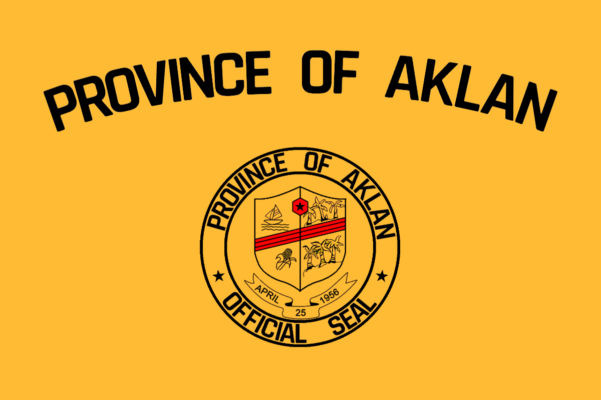 Provincial Flag of Aklan (gold version)